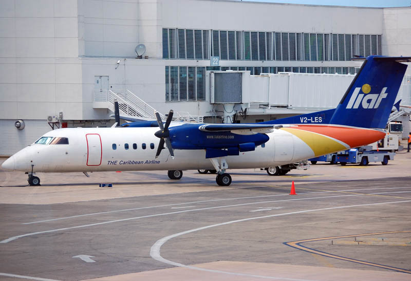 LIAT De Havilland Canada DHC-8-311 Dash 8 at San Juan International.